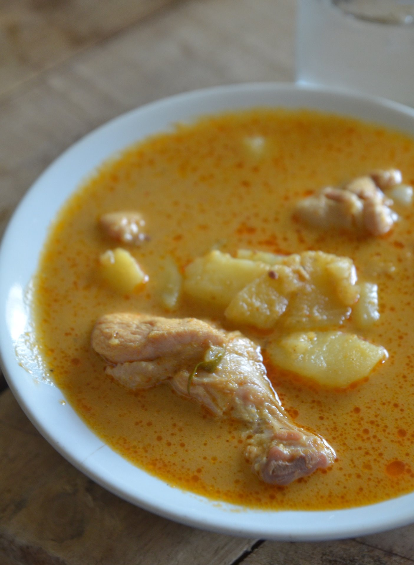 Kaeng kari (Thai script: แกงกะหรี่) is a Thai-muslim dish which is mostly known in the West as "Thai yellow curry". It is of Indian origin and often features chicken and potatoes. It can also be made with other meats or seafood.